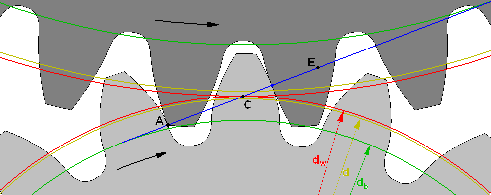 basic nomenclature of involute gears